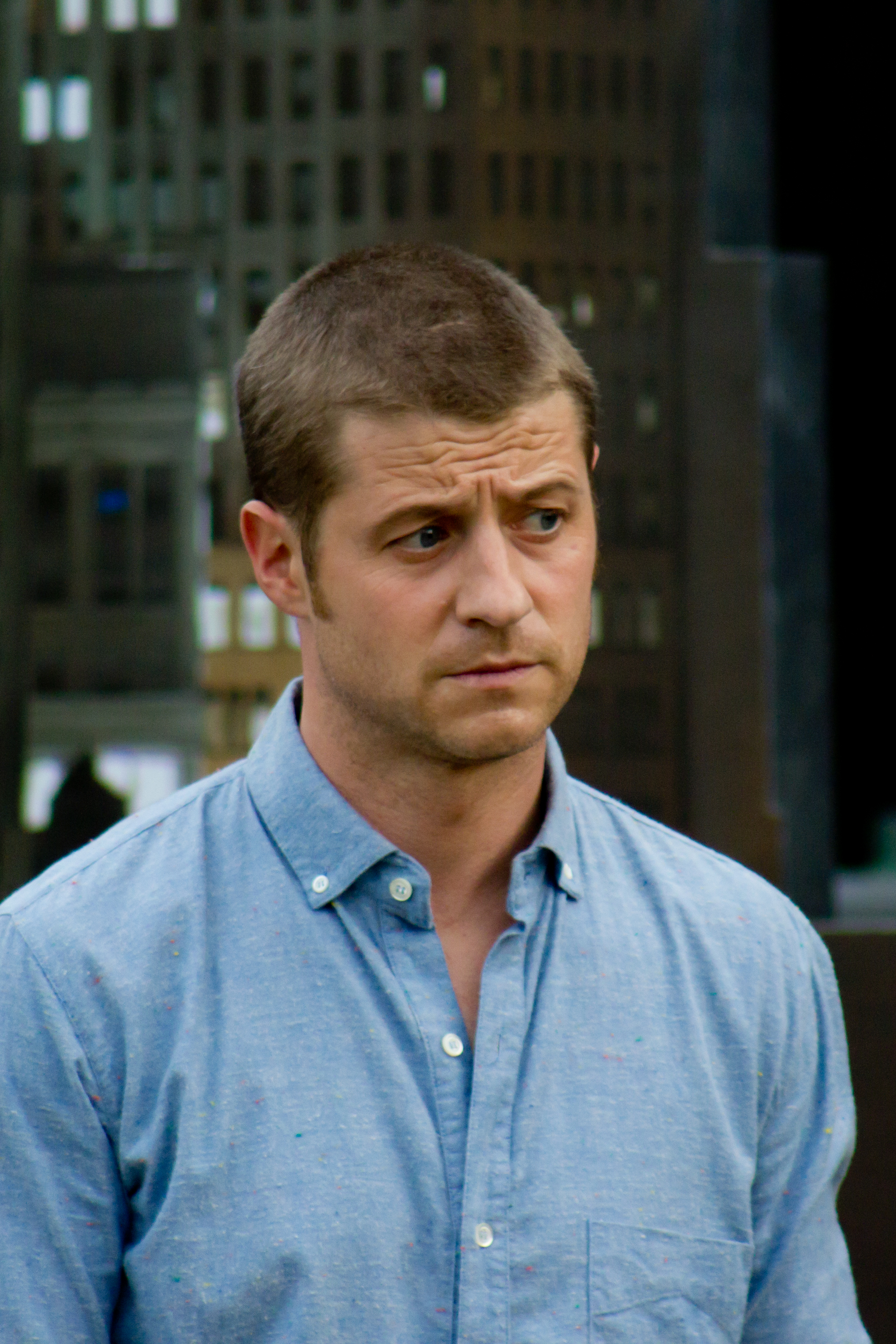 McKenzie filming for "Gotham"